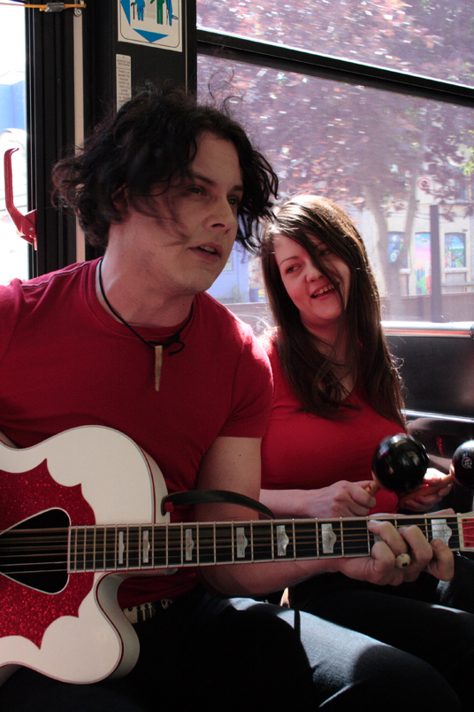 Jack and Meg White кидают на вас болт ",бальшие маракасы" giving an impromptu concert to fans on a bus in Winnipeg, MB.